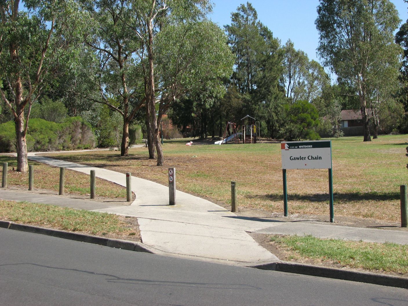 Own photo of start of bike trail